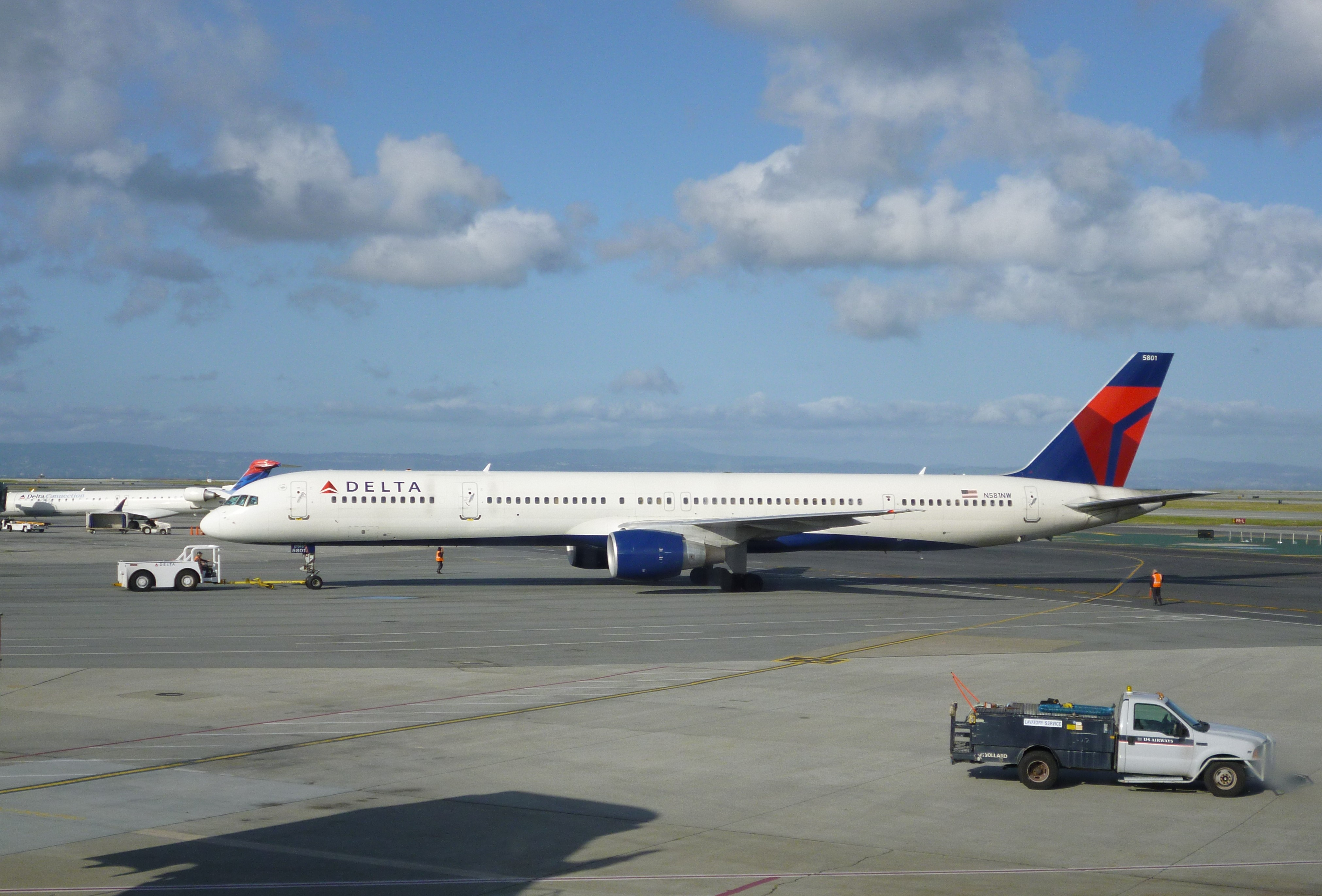 Delta Air Lines 757 number N581NW at San Francisco International Airport, USA.